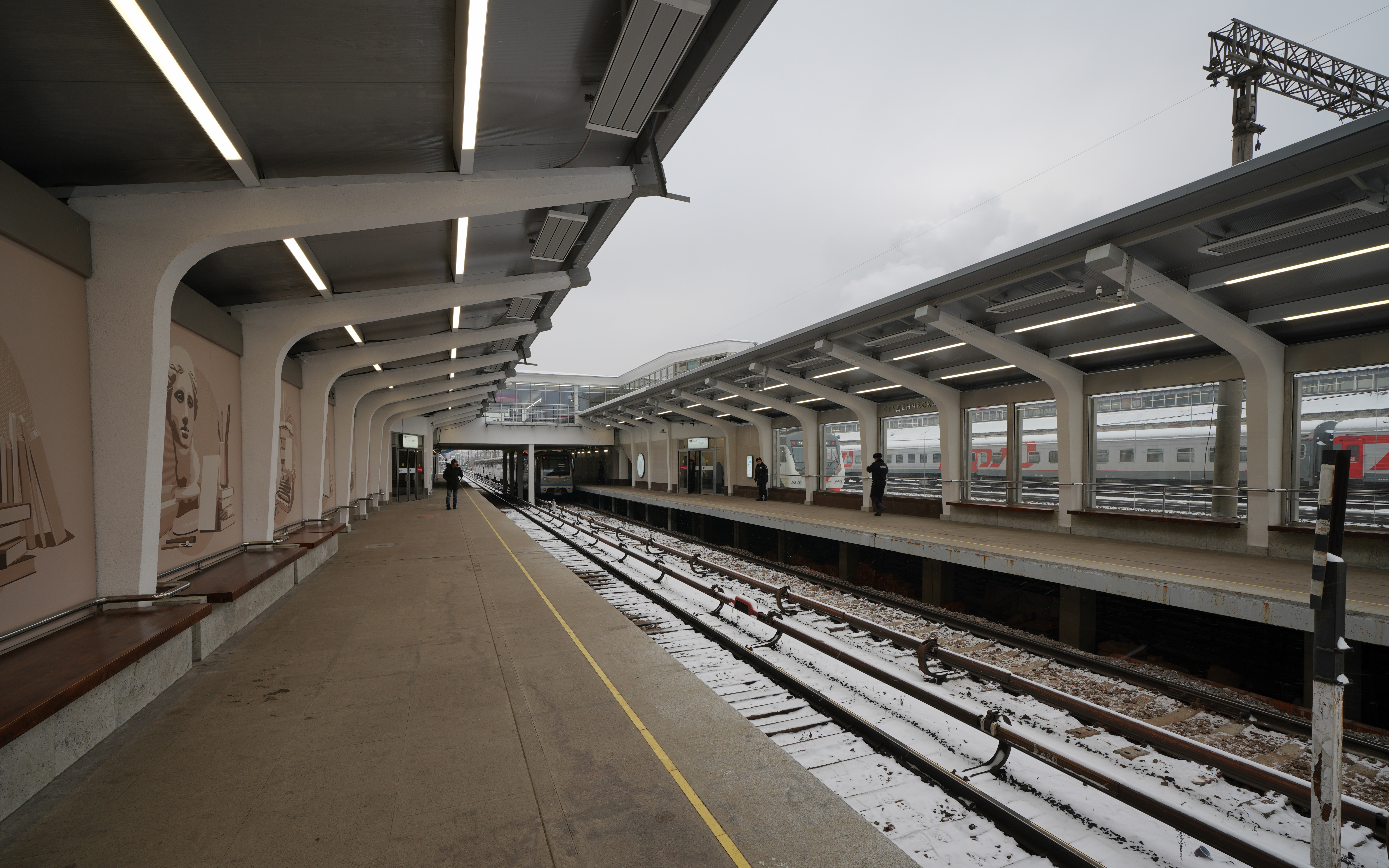 Studencheskaya metro station (after 2017 renewal), Moscow